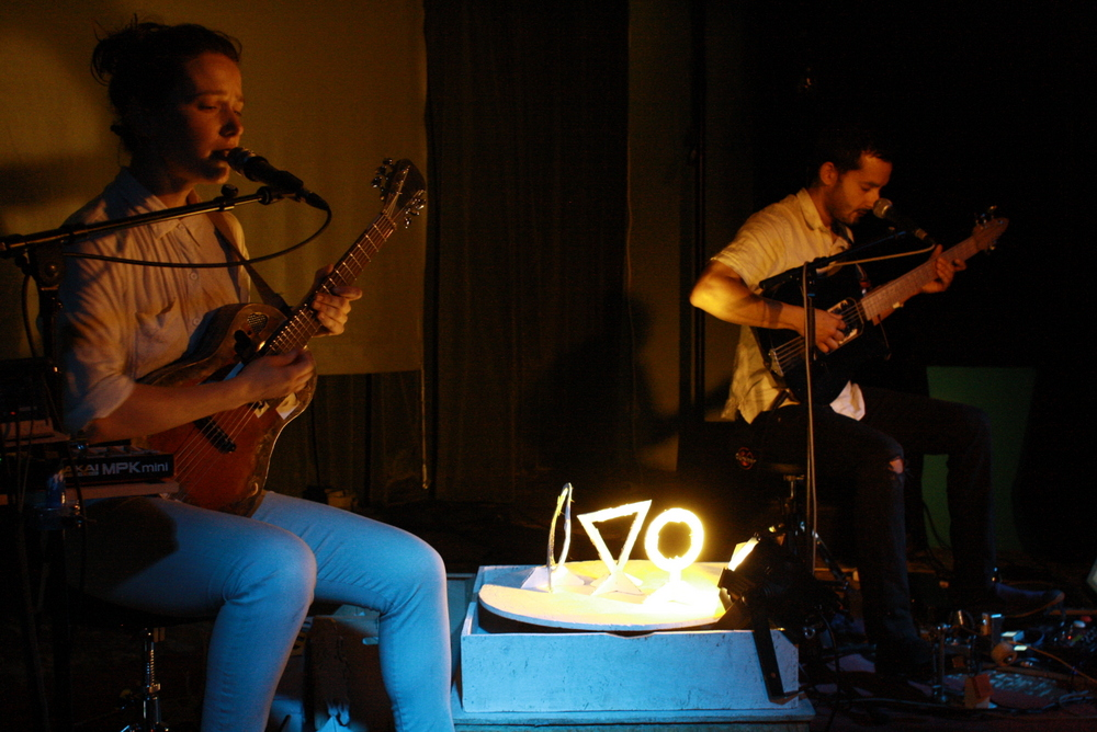 Buke and Gase